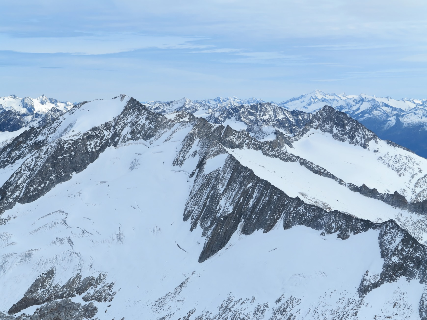 Mountains Großer Möseler (left) and Turnerkamp (right) in the Zillertal Alps, seen from Hochfeiler